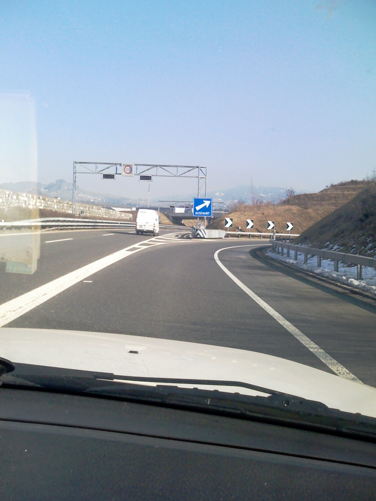 Swiss Cantonal Highway A53, exit 15 at Schmerikon, Canton of St. Gall, Switzerland